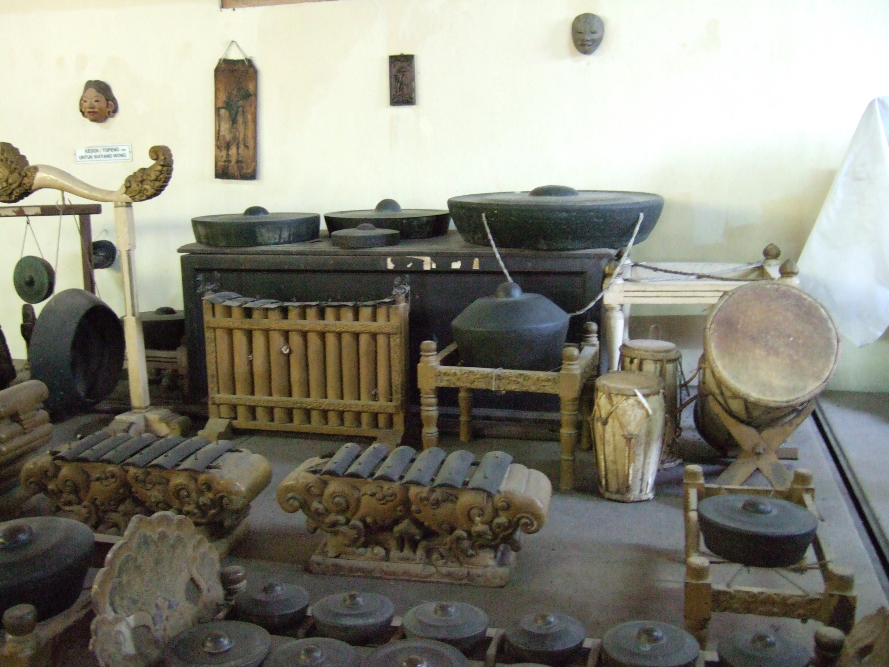 Gamelan Laras Slendro Si Ketuyung, Keraton Kasepuhan, Cirebon, Indonesia